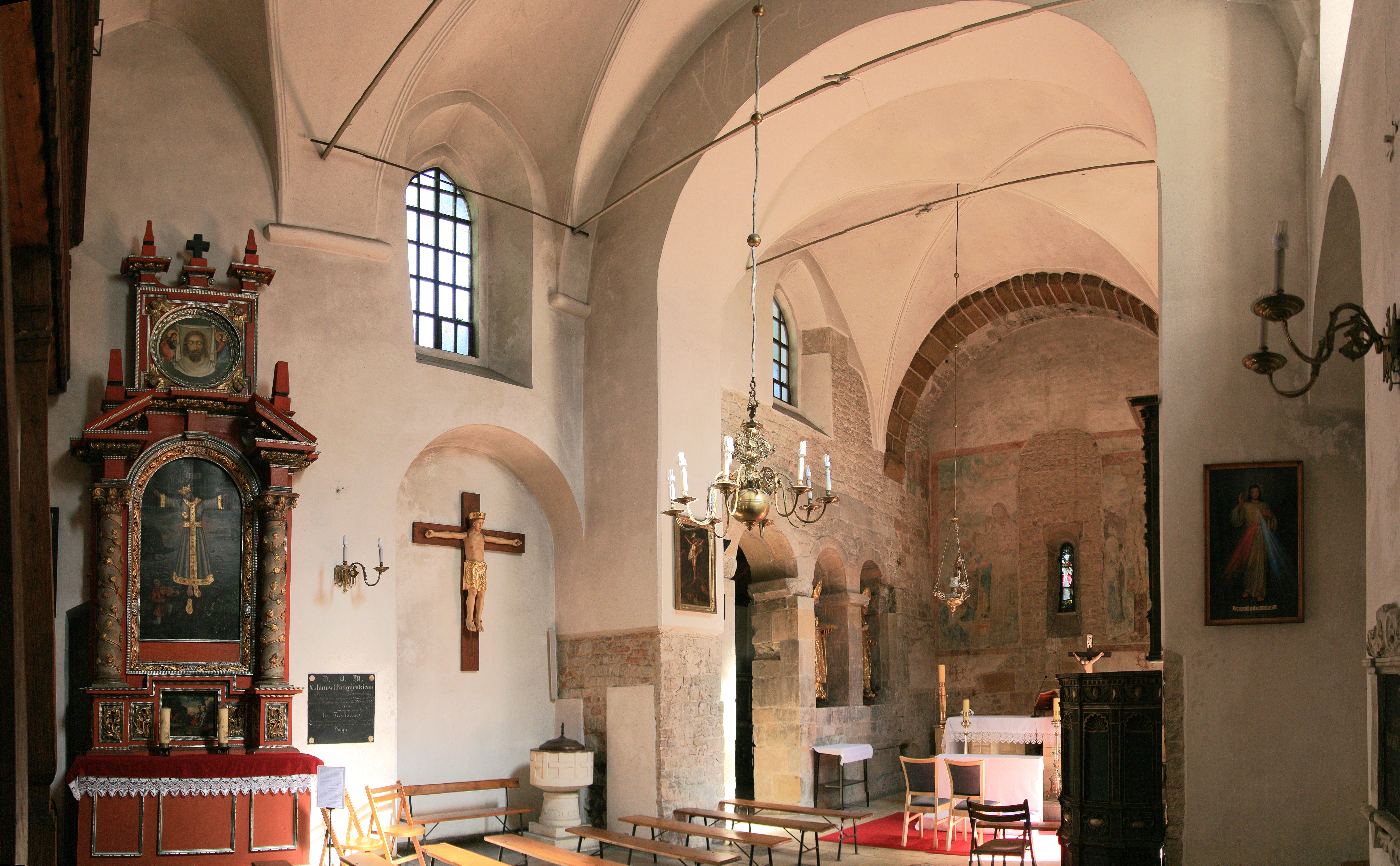 Interior of the Church of St. Salvatore, Krakow